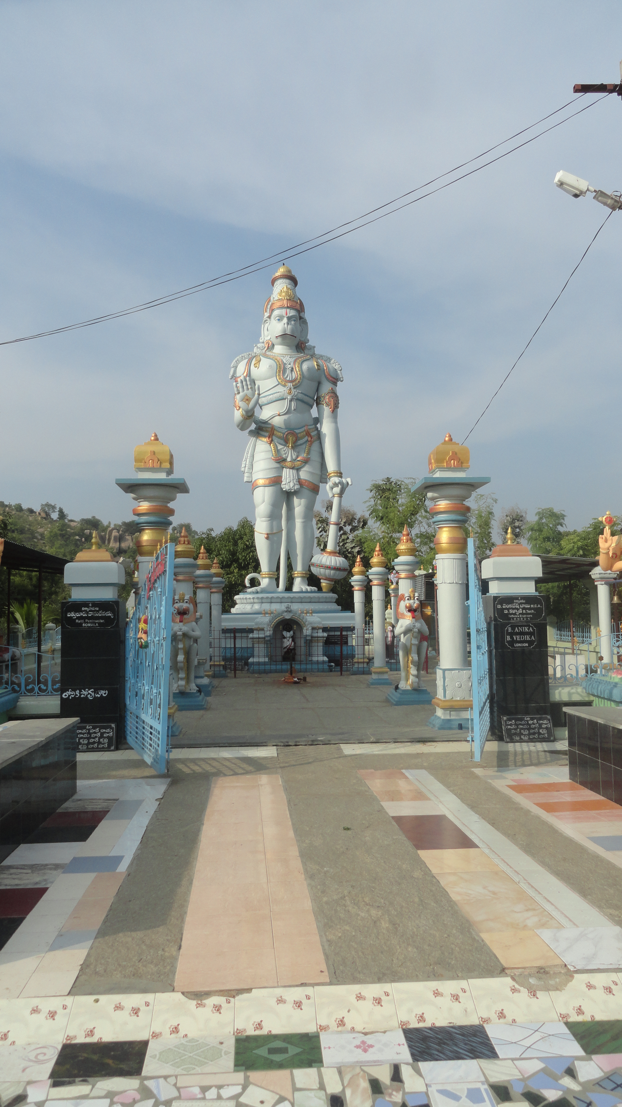 hanuman statue near Somala of chittoor dist.